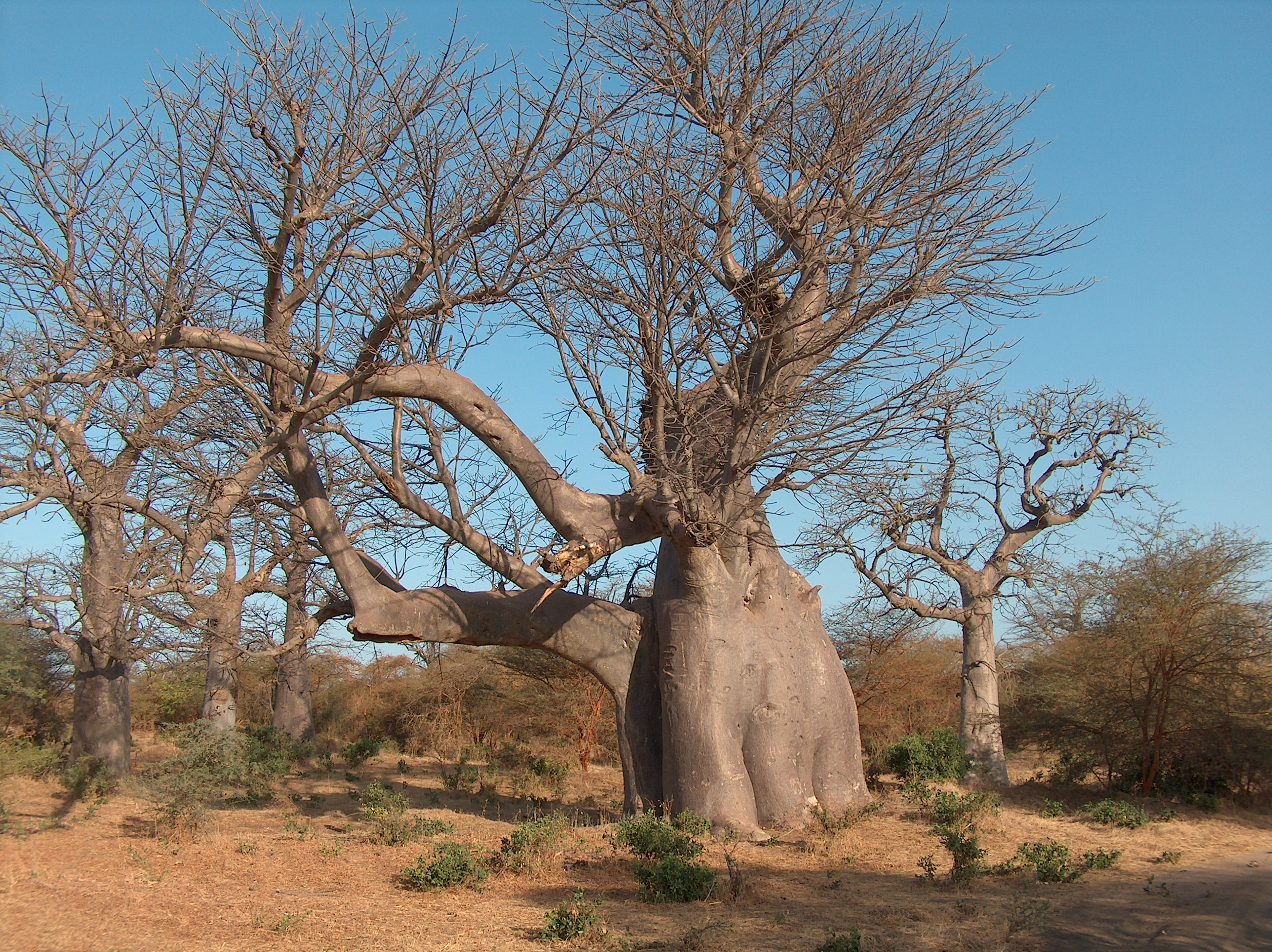 Baobab trees, Adansonia digitata, and Acacia trees and other plants of the Sahel sub-Saharan savanna, in the Bandia Reserve, Senegal.